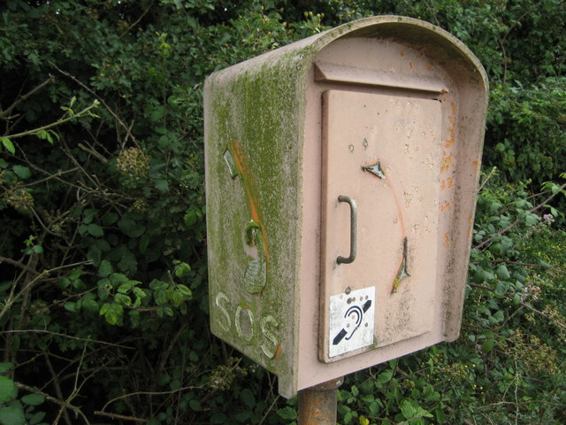 Abandoned SOS Phone. This stands beside a bridleway that used to carry the Great North Road. There is no phone inside, but there is a copious amount of rotting garbage and an interesting variety of invertebrate life, mainly maggots, that have commandeered this accommodation